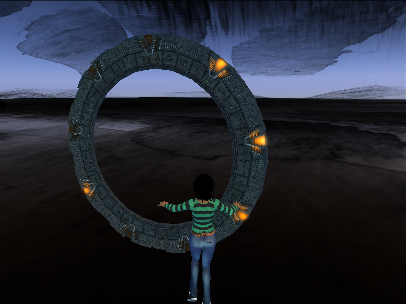 A Milky Way stargate in Second Life. The stargate is being dialed where four chevrons are currently used. Photographed 13 June, 2012.